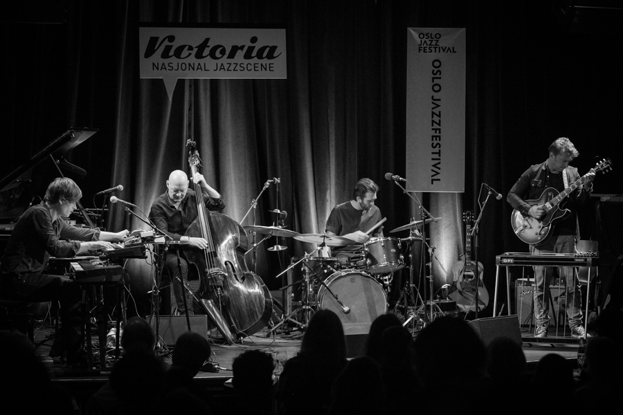 Tonbruket at Victoria Teater. The concert was part of Oslo Jazzfestival and took place on 15. August 2017 in Oslo. Lineup: Dan Berglund (double bass), Martin Hederos (keyboard), Andreas Werliin (drums) and Johan Lindström (guitar).